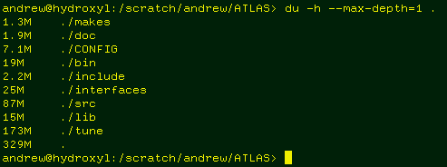 Example output of the du UNIX command